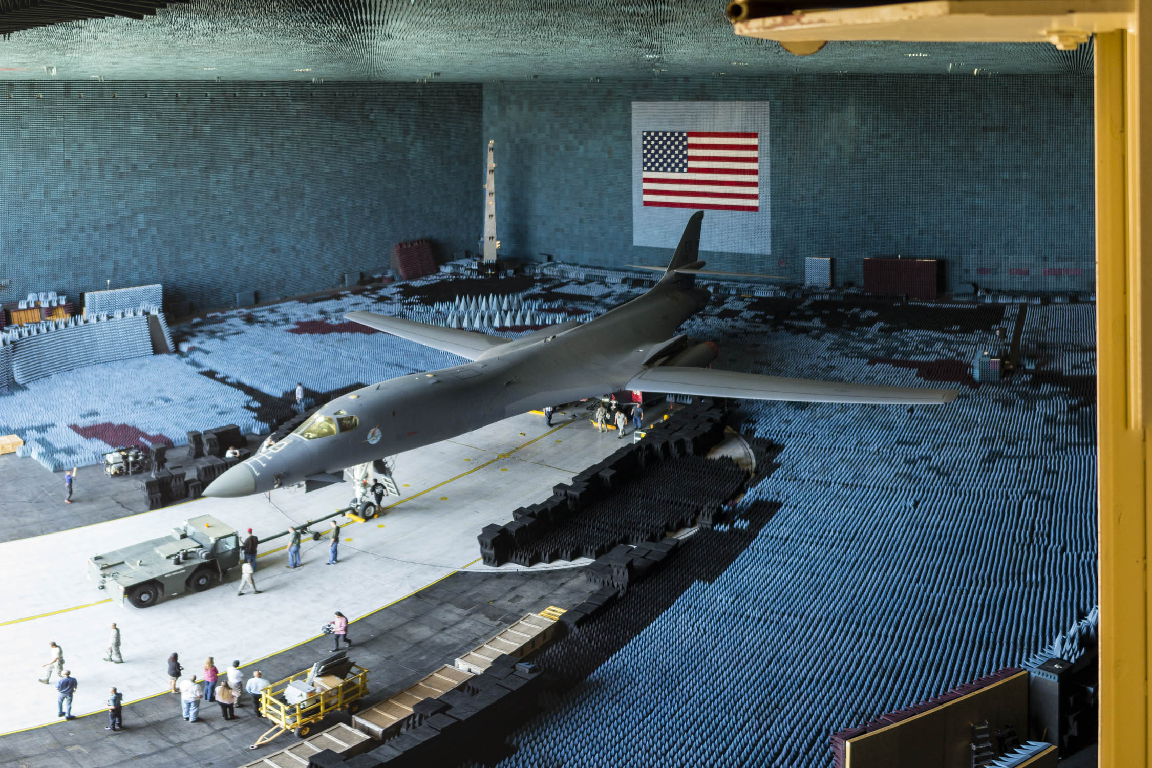 EDWARDS AIR FORCE BASE, Calif. (July 27, 2016) A B-1 Lancer is positioned inside the Benefield Anechoic Facility, called the BAF for short, on Edwards Air Force Base in preparation for a series of electronic warfare tests. The B-1 is the largest aircraft for which the anechoic facility was originally designed to accommodate. (U.S. Air Force photo by Christopher Okula)